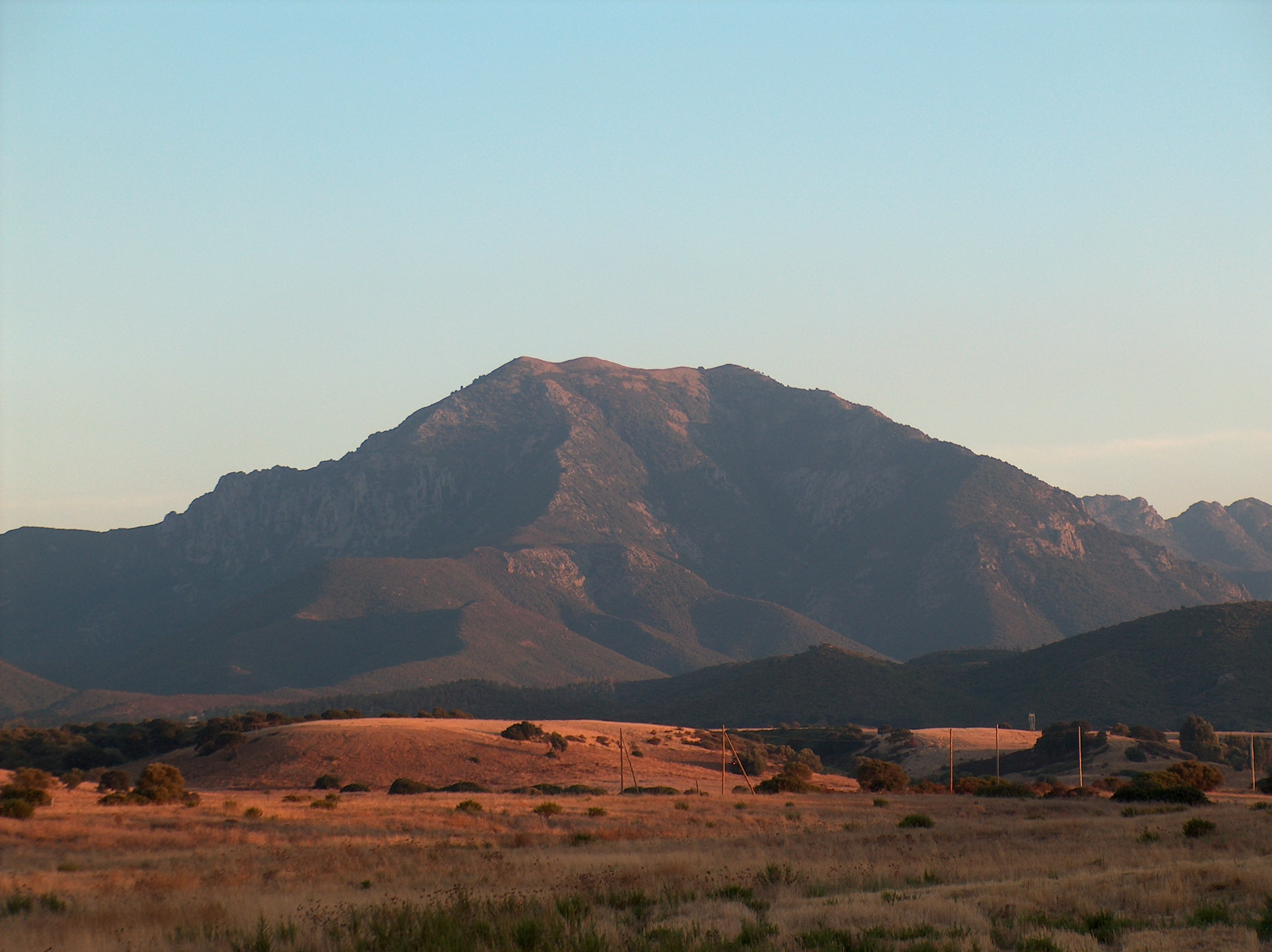 View of northern side of Mount Arcosu (Sardinia, Italy)